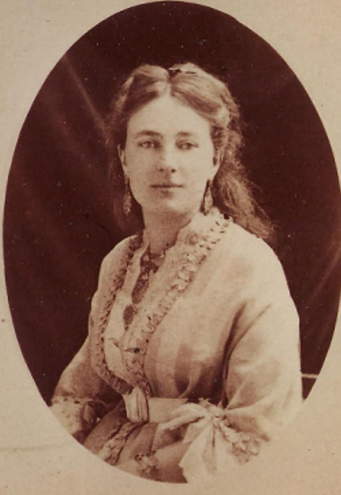 Portrait of Juliette Adam (1836-1936).